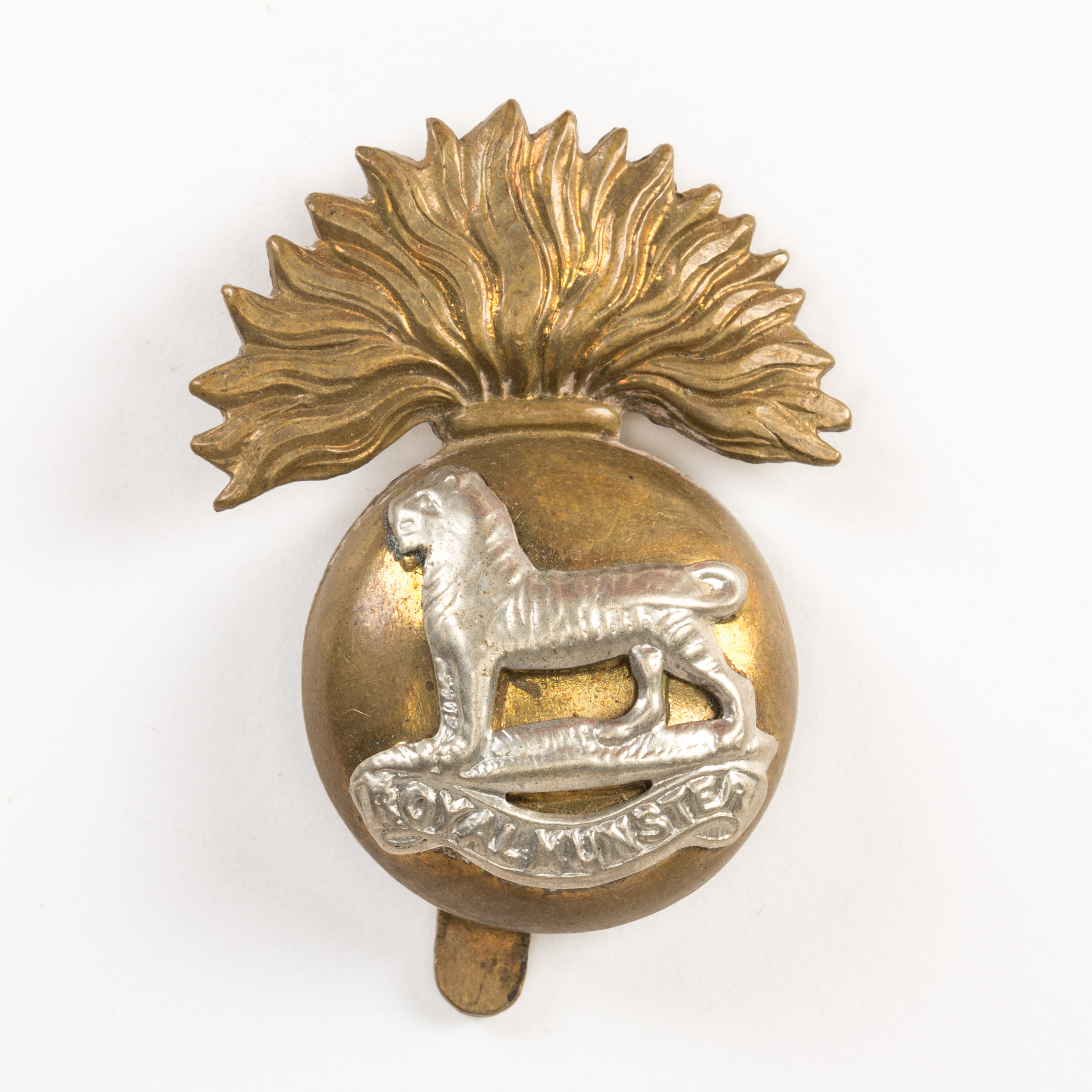 Badge, regimental. Royal Munster Fusiliers Regiment cap badge stylised flaming bomb in brass, white metal tiger facing left with the banner "Royal Munster" beneath it The Royal Munster Fusiliers was a regular infantry regiment of the British Army. One of eight Irish regiments raised largely in Ireland, it had its home depot in Tralee. It was originally formed in 1881 by the amalgamation of two regiments of the former East India Company.